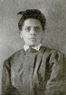 A portrait of an African-American woman, wearing a dark dress with a white lace collar.